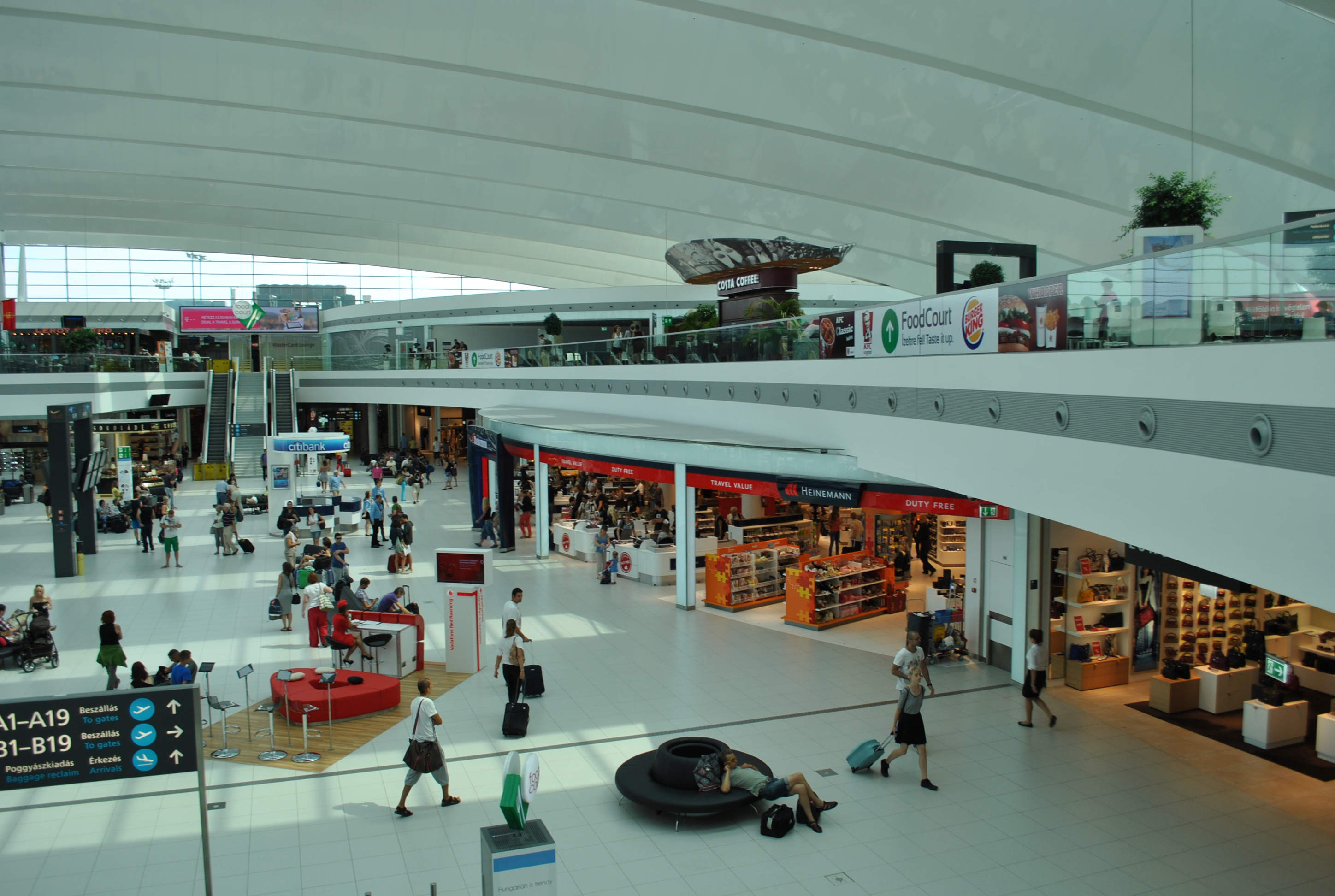 Budapest Liszt Ferenc International Airport inside of SkyCourt